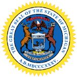 The Michigan state seal.